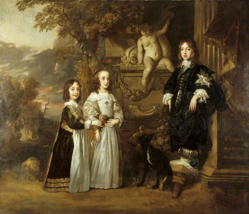 Group portrait of the youngest children of Charles I. in 1647: James Stuart (1633–1701), Duke of York, later King James II at age 14; Princess Elizabeth Stuart(1635–1650) at age 12; Henry Stuart (1639–1660), Duke of Gloucester at age 8; Oil painting at Petworth House, West Sussex